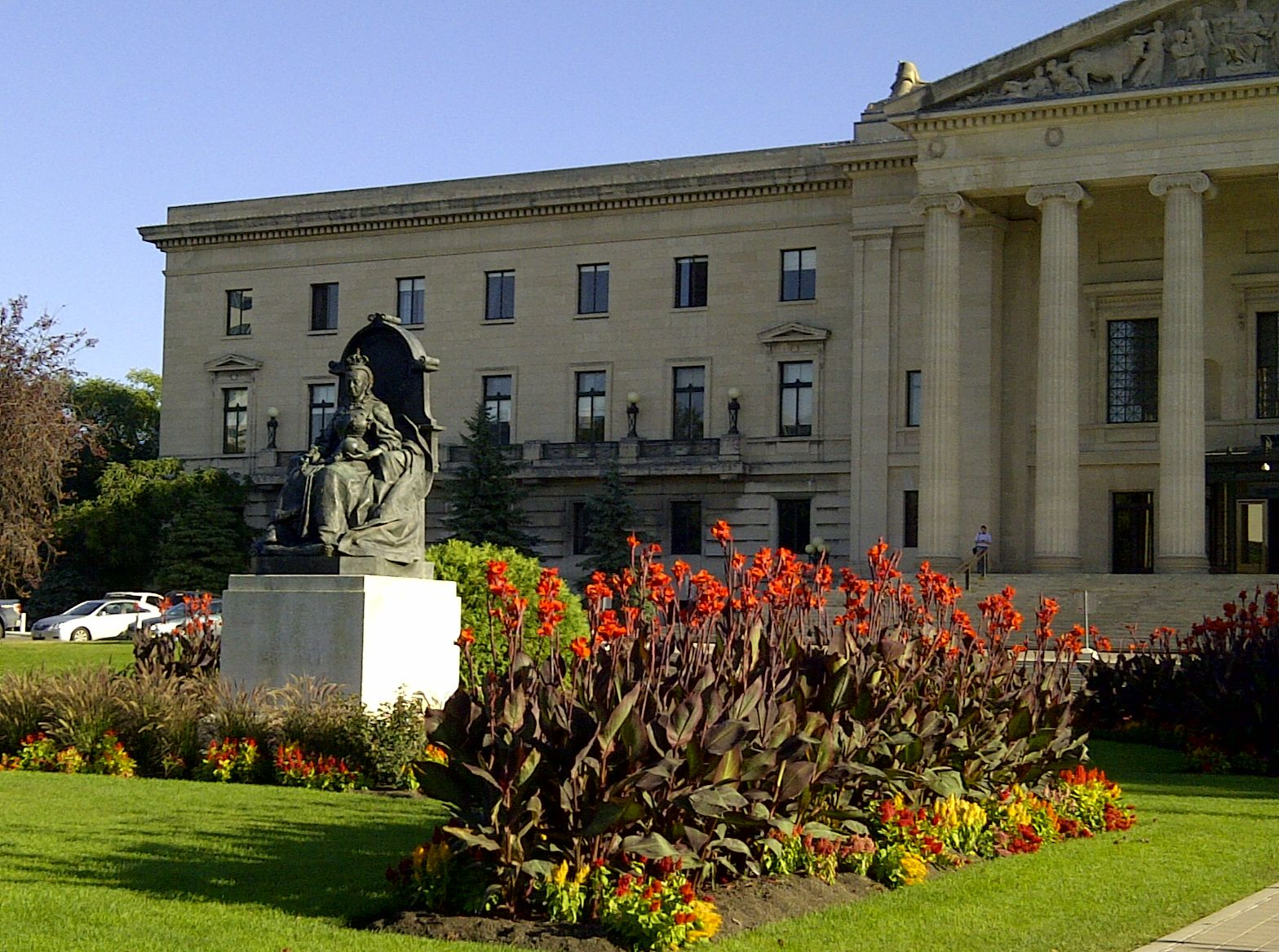 The front of the Manitoba Legislative Building, with the statue of Queen Victoria